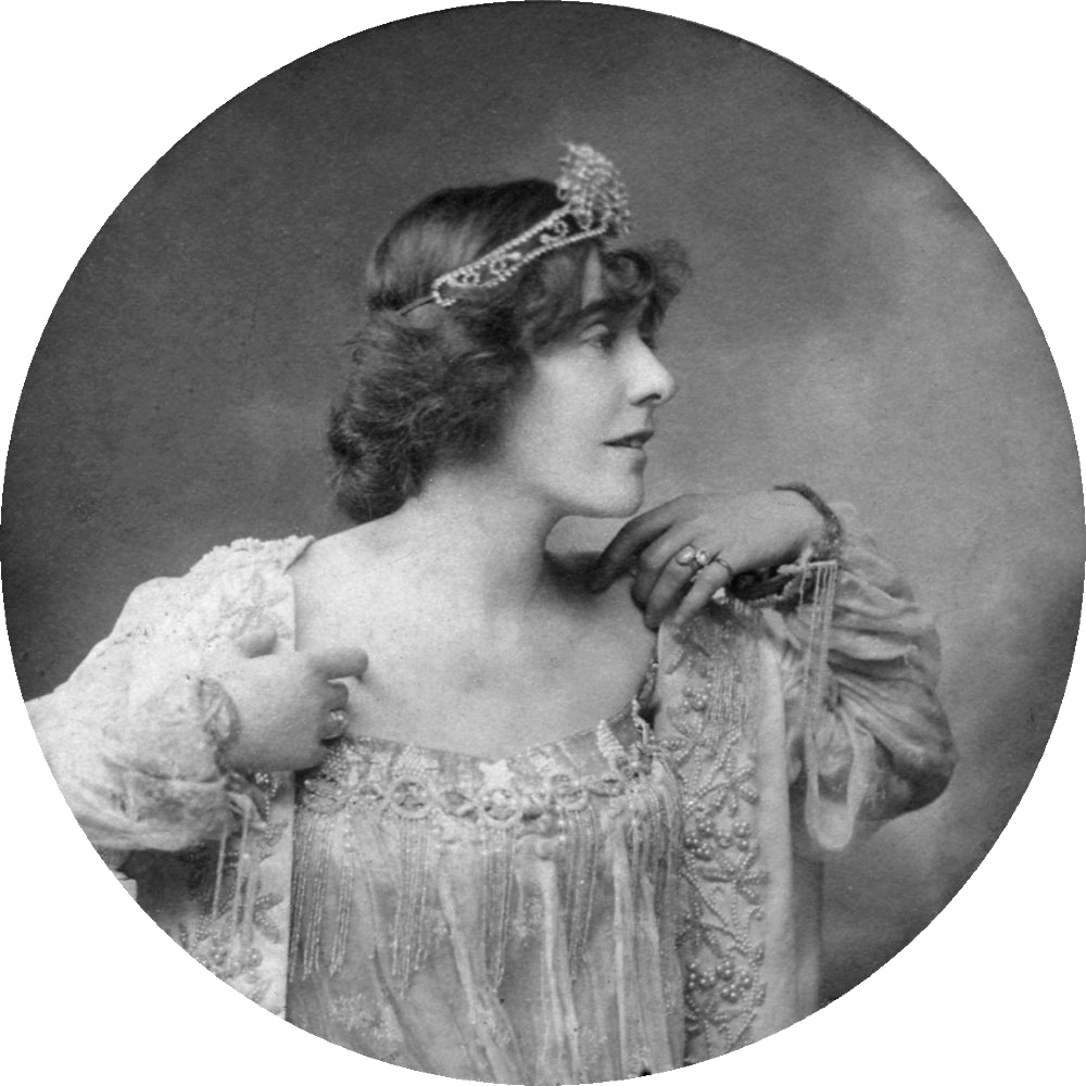 The Shakespearean actress Constance Crawley in a stage role